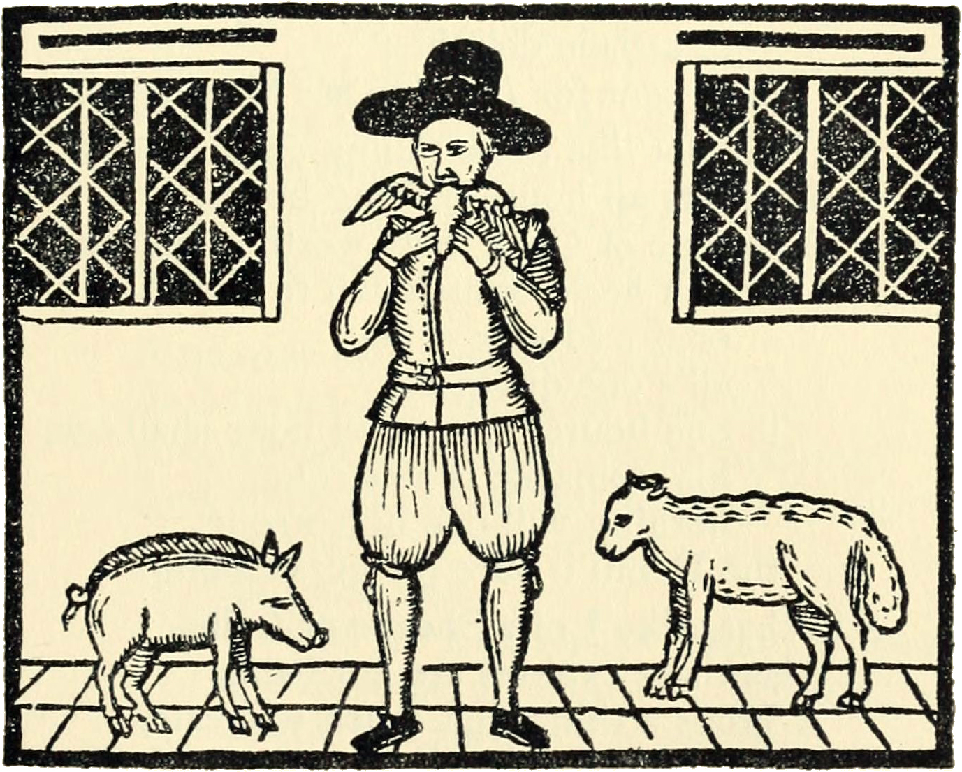 Woodcut from The great eater, of Kent, or Part of the admirable teeth and stomacks exploits of Nicholas Wood, of Harrisom in the county of Kent His excessiue manner of eating without manners, in strange and true manner described, by Iohn Taylor